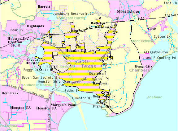 Map of Baytown, Texas